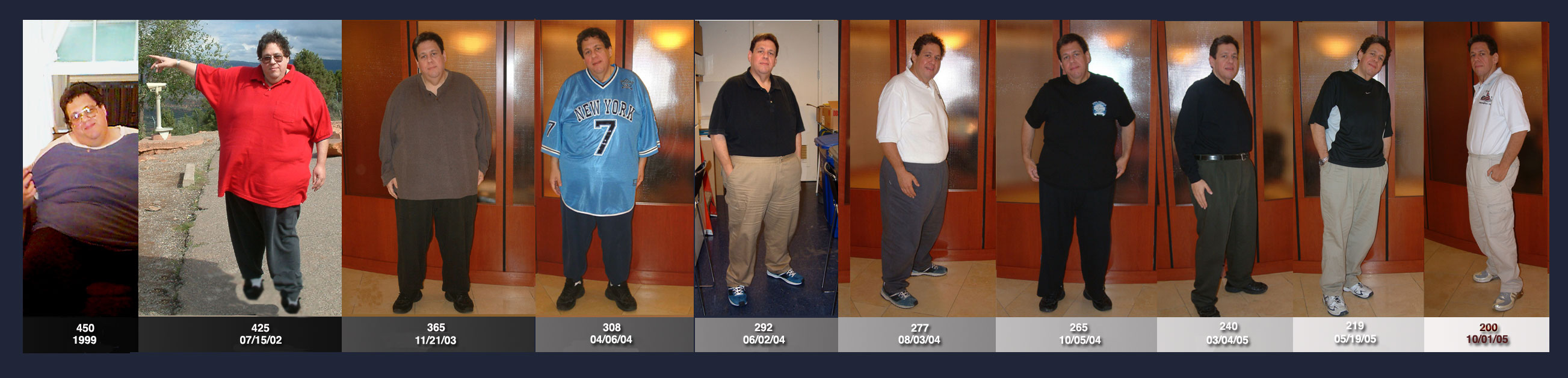 The transformation of Jonathan Gleich from 450 lbs to 200 Lbs (204 kg to 91 kg)